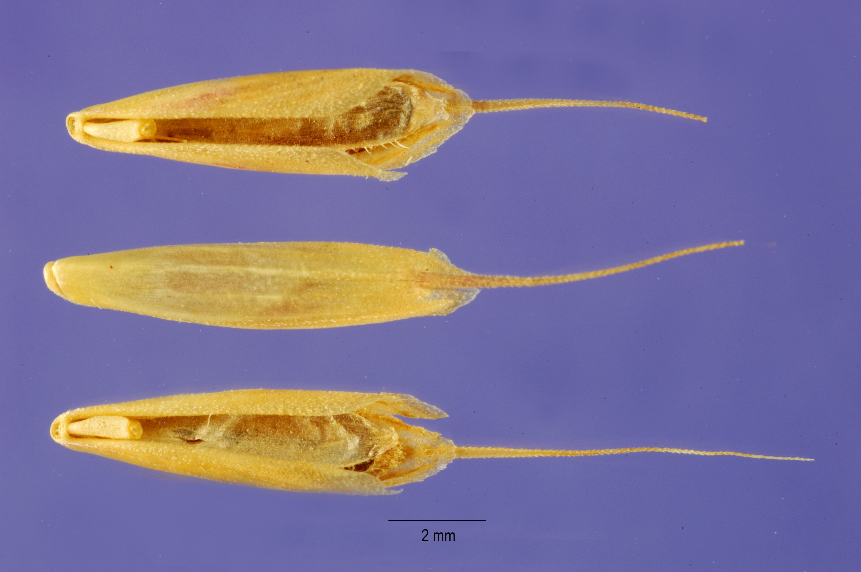 Bromus ramosus from Jose Hernandez, Provided by ARS Systematic Botany and Mycology Laboratory. Russian Federation, Saint Petersburg.